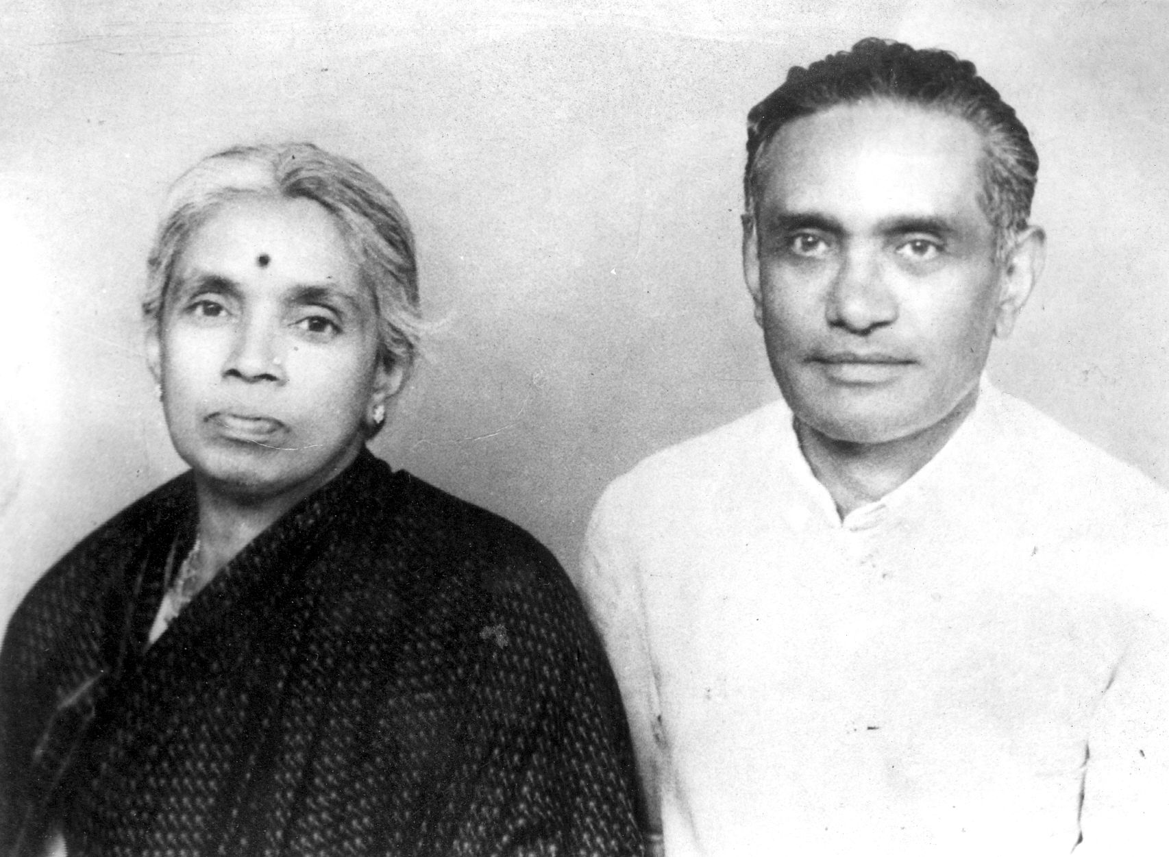 Gundugutti Manjanathayya and his wife Meenakshi